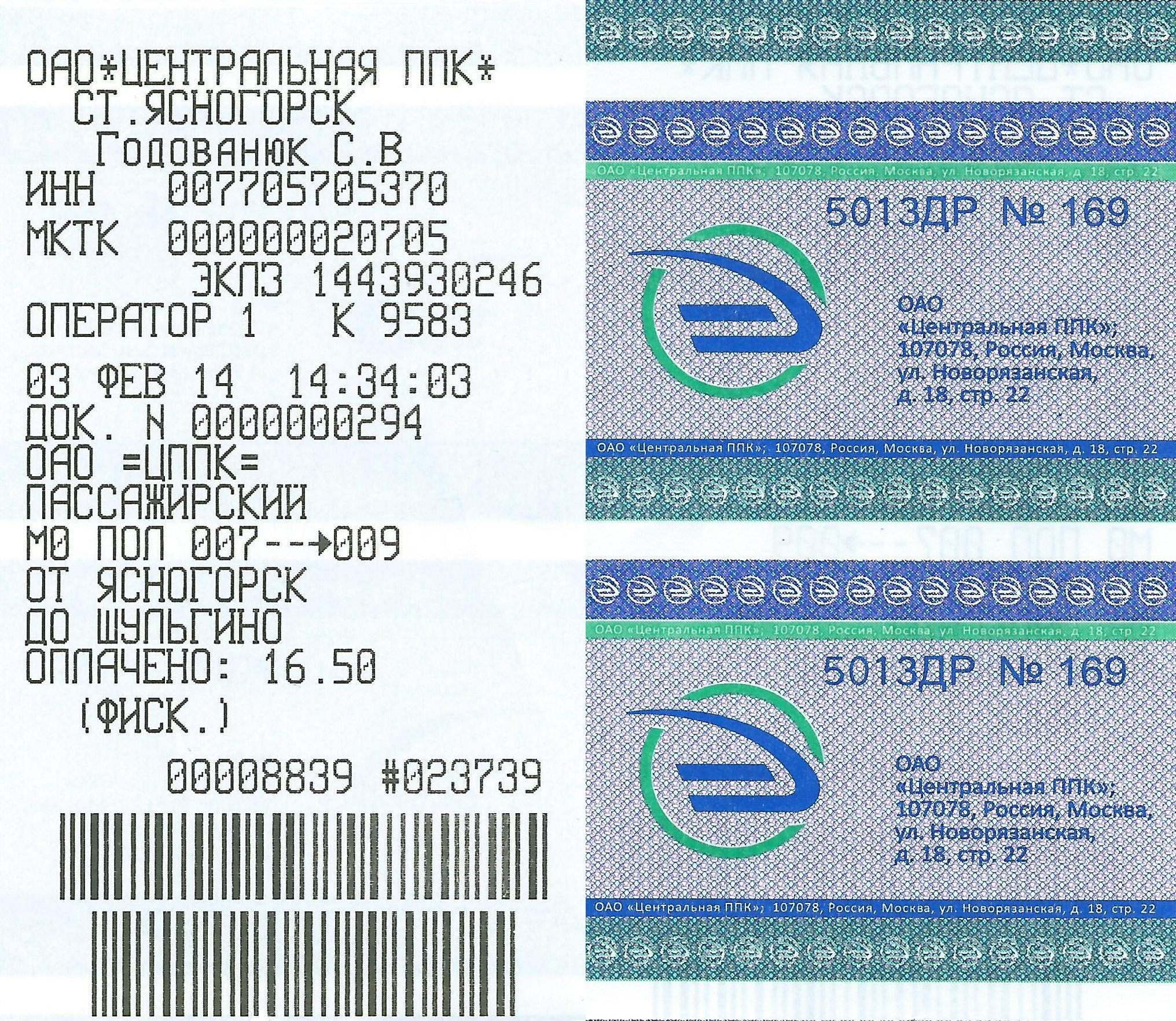 Russia, ticket on the electric train (suburban) for Yasnogorsk-Shulgino (Moscow Railway), 03.02.2014